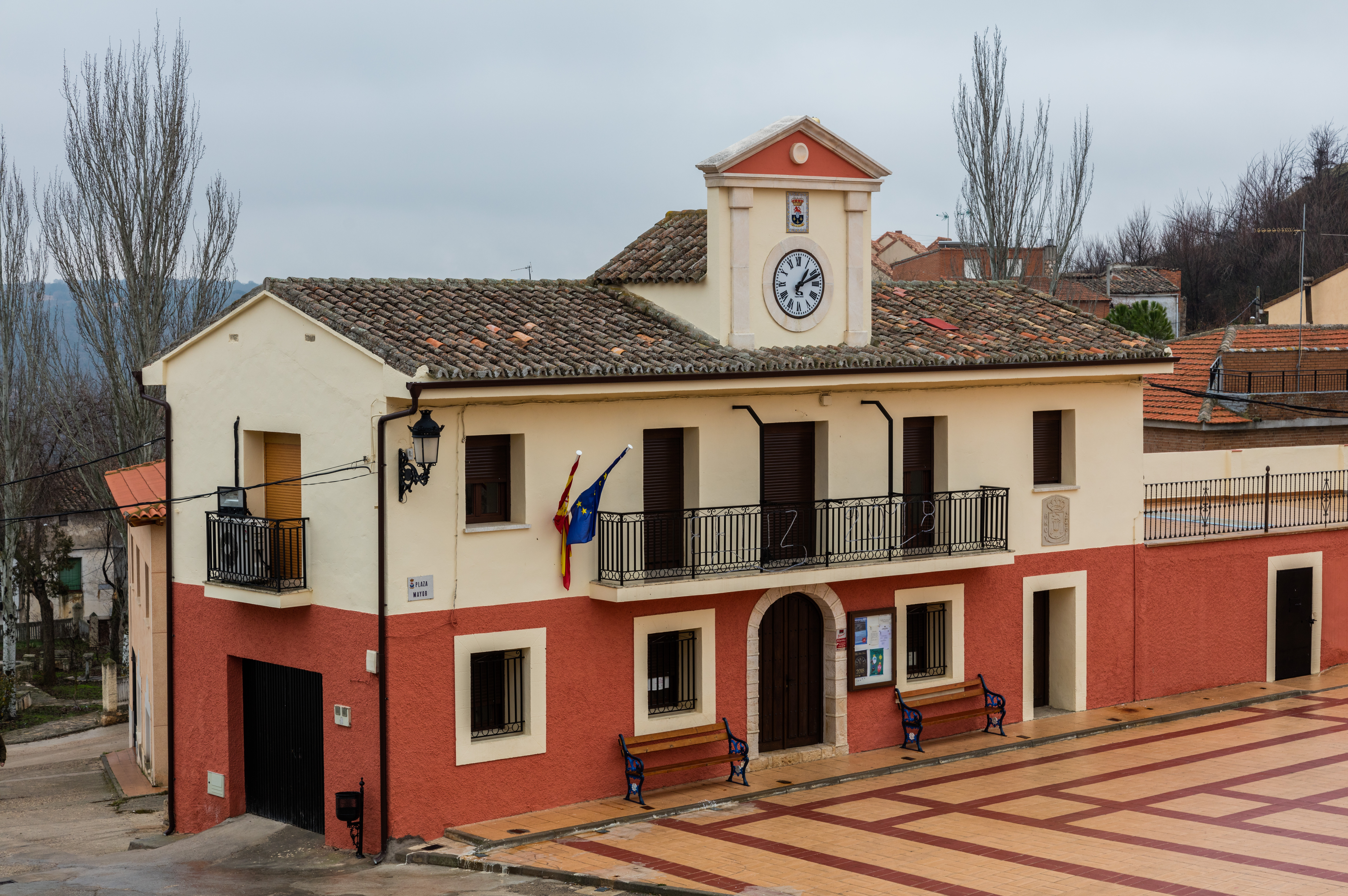 Town hall, Atanzón, Guadalajara, Spain